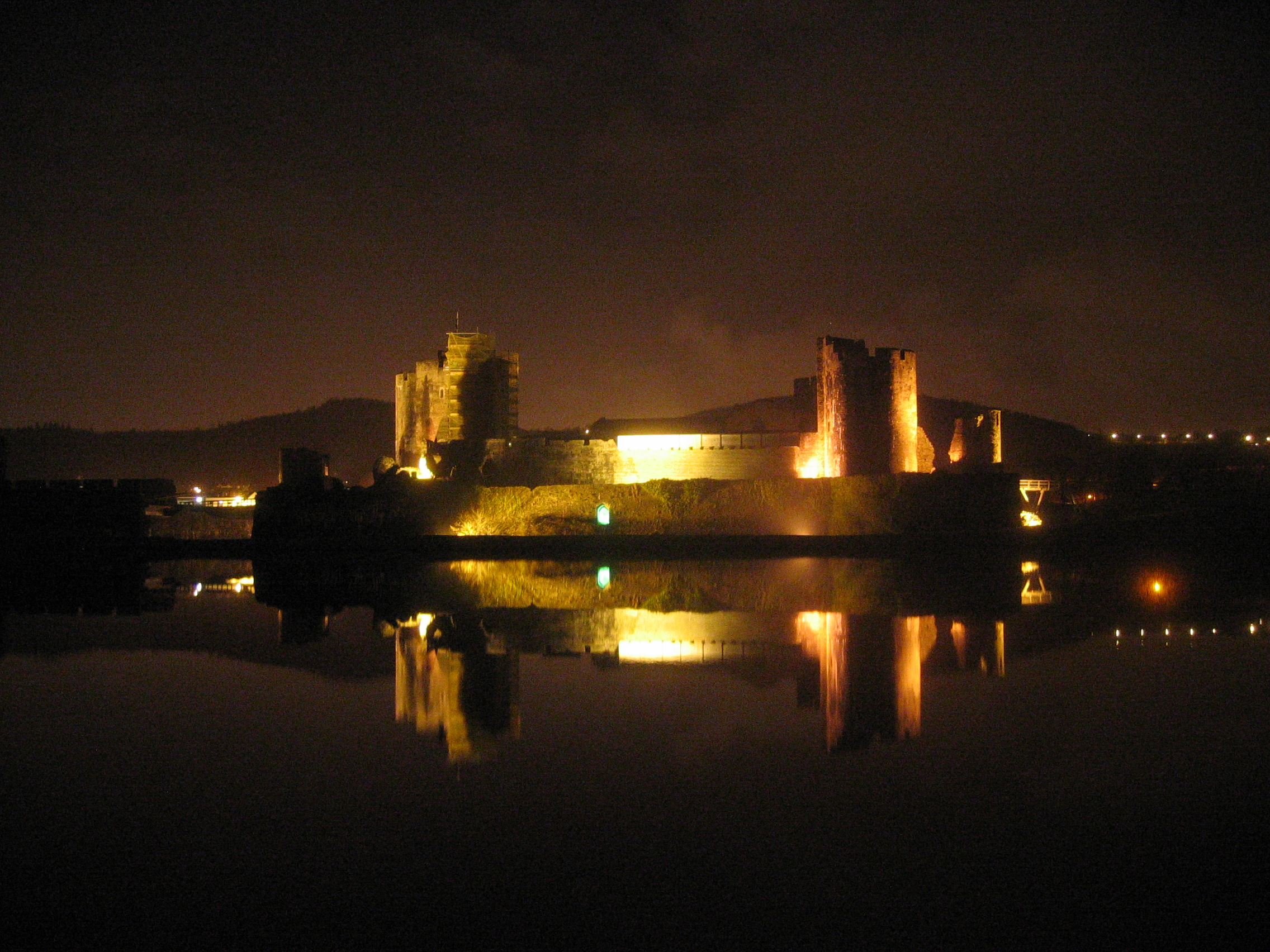 Caerphilly Castle at night